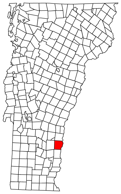 Description: Map of Vermont towns with Springfield highlighted Source: Map created by Jared C. Benedict on 26 March 2004. Copyright: © Jared C. Benedict.